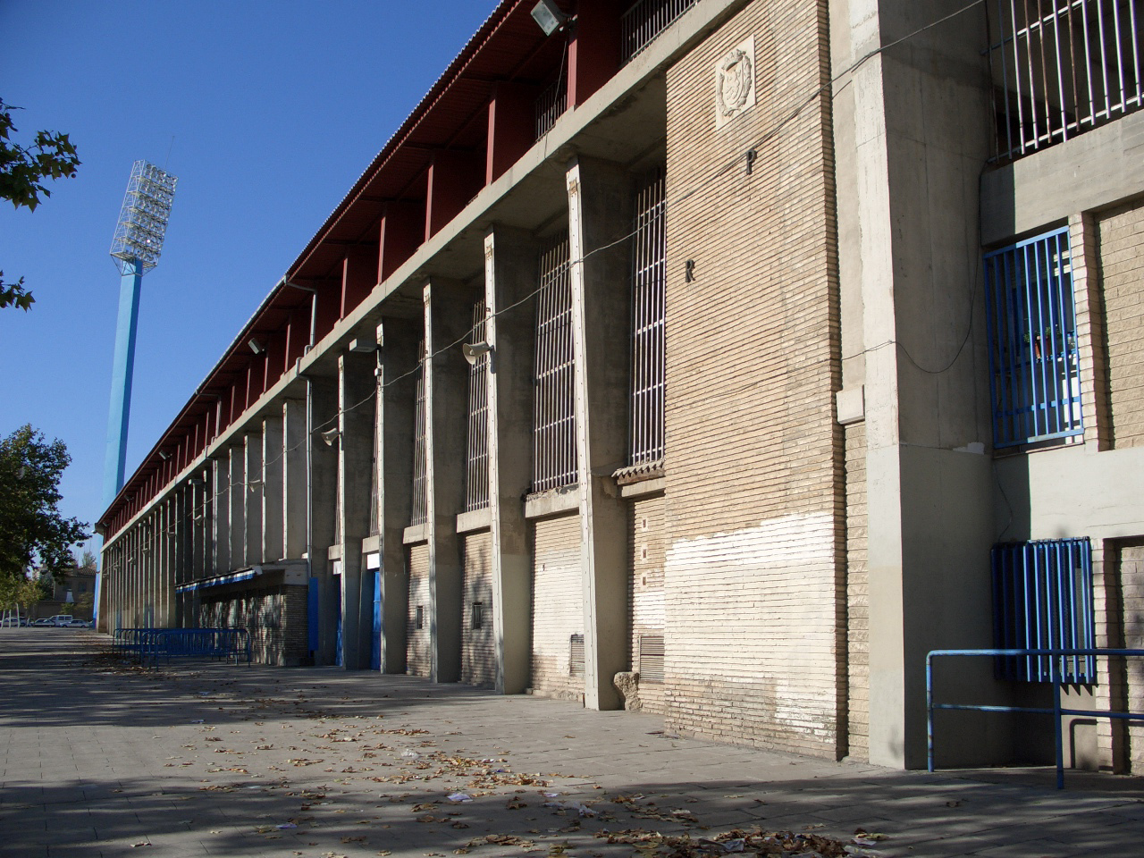 Photo of the Romareda Stadium at Zaragoza, Spain